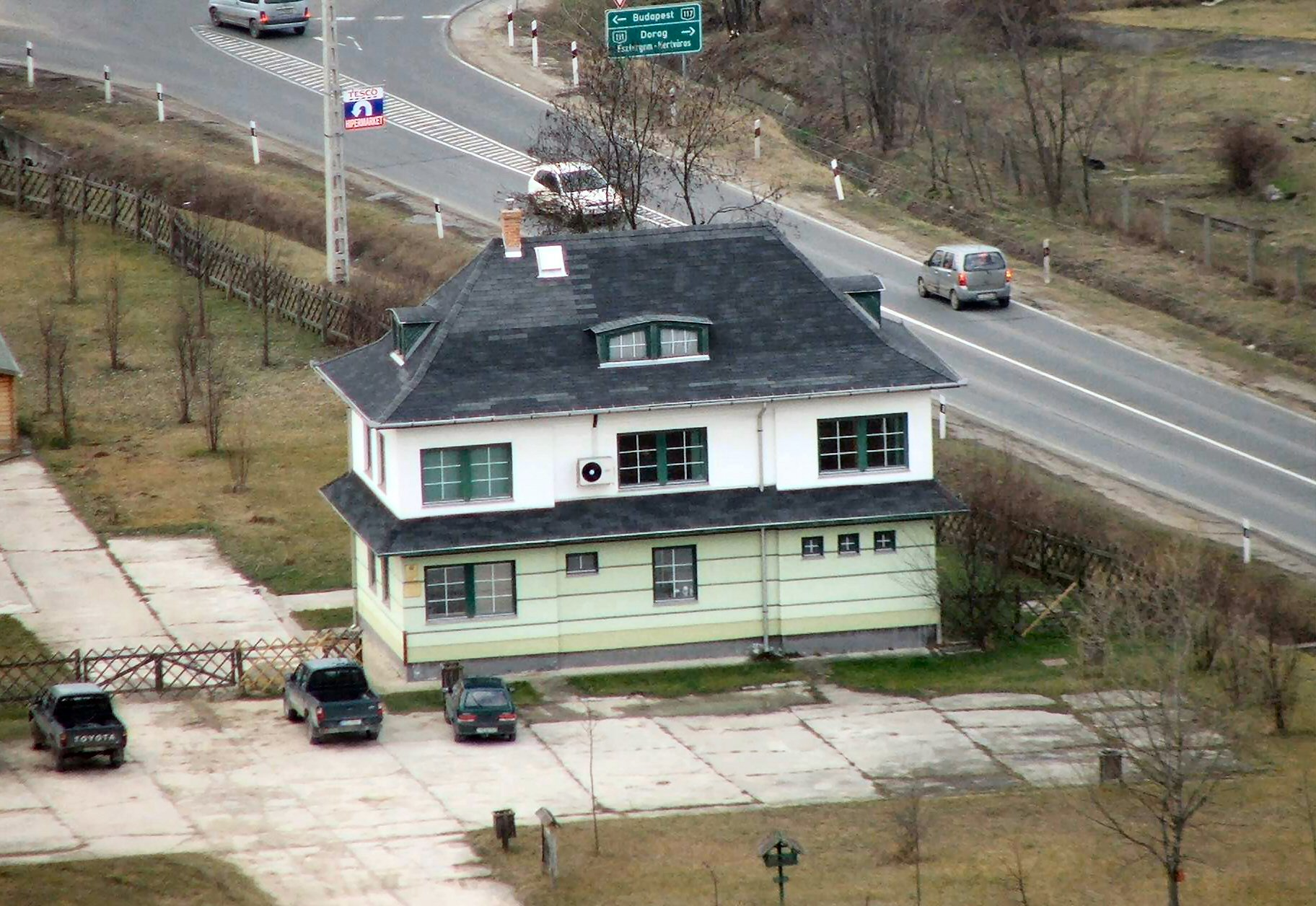 Building of the Duna-Ipoly National Park in Esztergom, Hungary. View from the nearby Strázsa-hill.